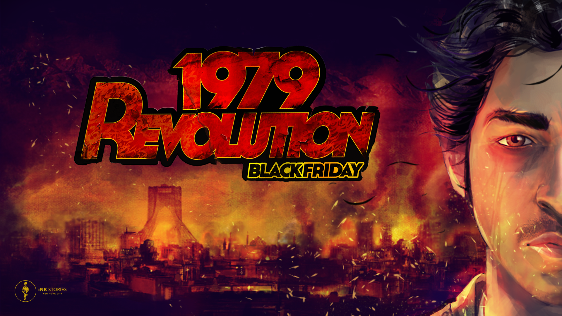 1979 Revolution: Black Friday game logo